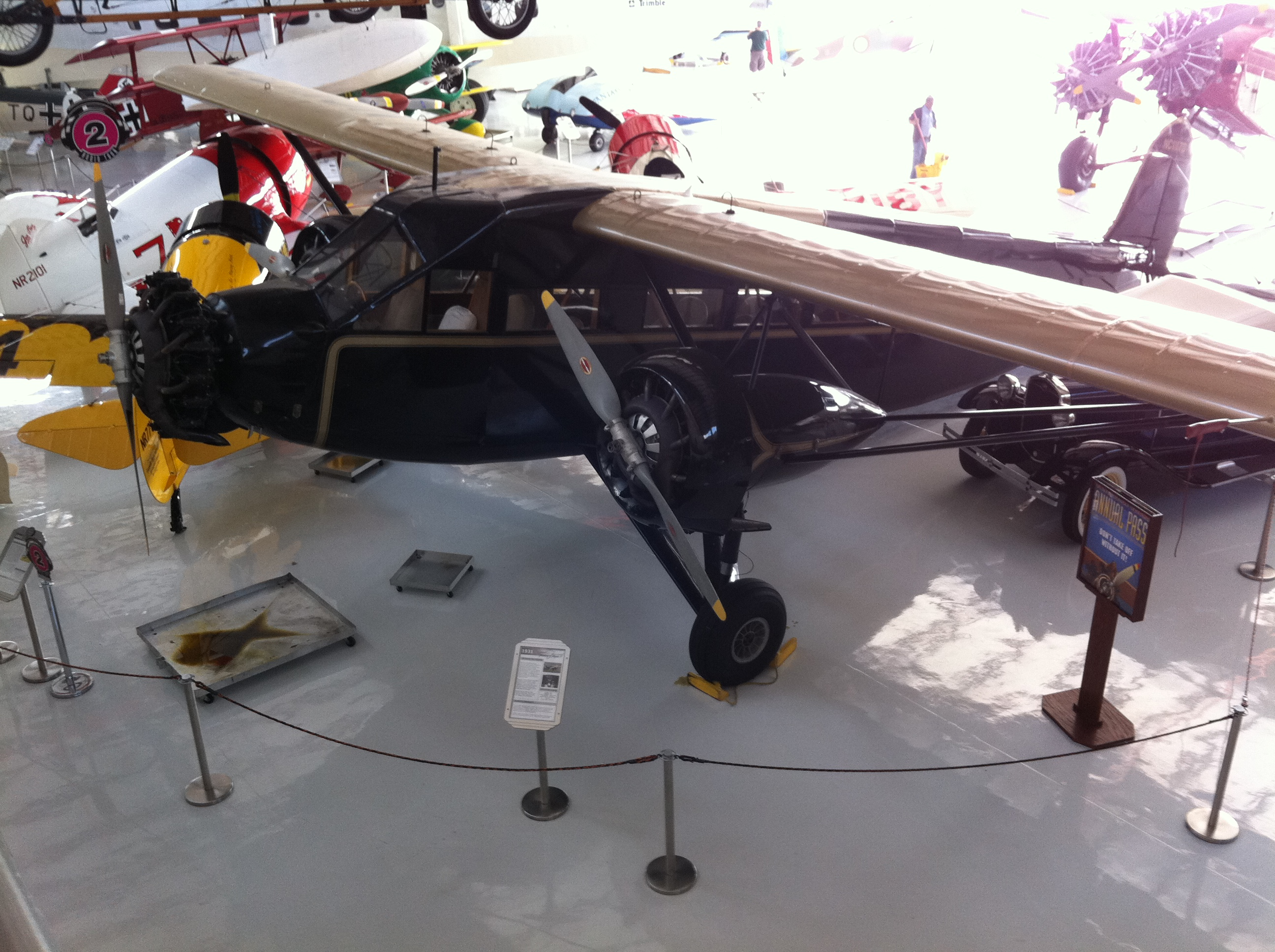 Stinson SM-6000B (NC11170), at Fantasy of Flight museum, Florida